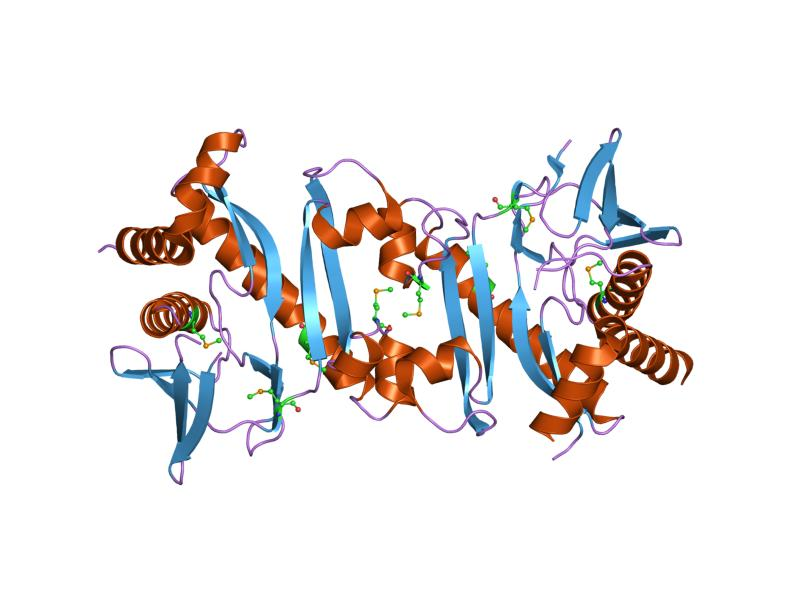 Cartoon representation of the molecular structure of protein registered with 1kut code.